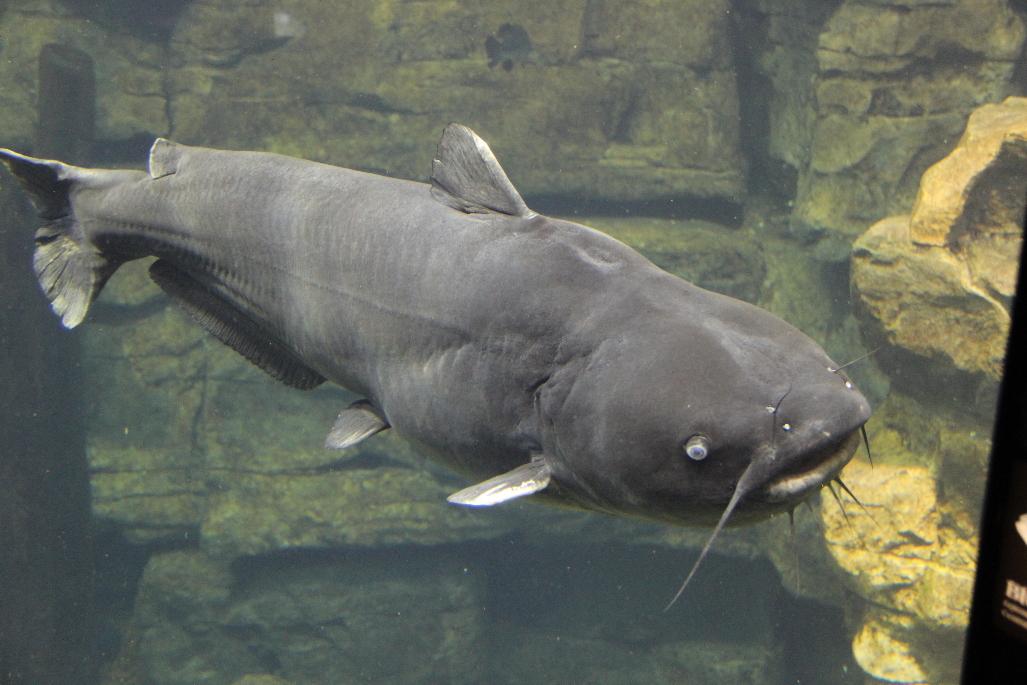 Ictalurus furcatus at the Tennessee Aquarium.